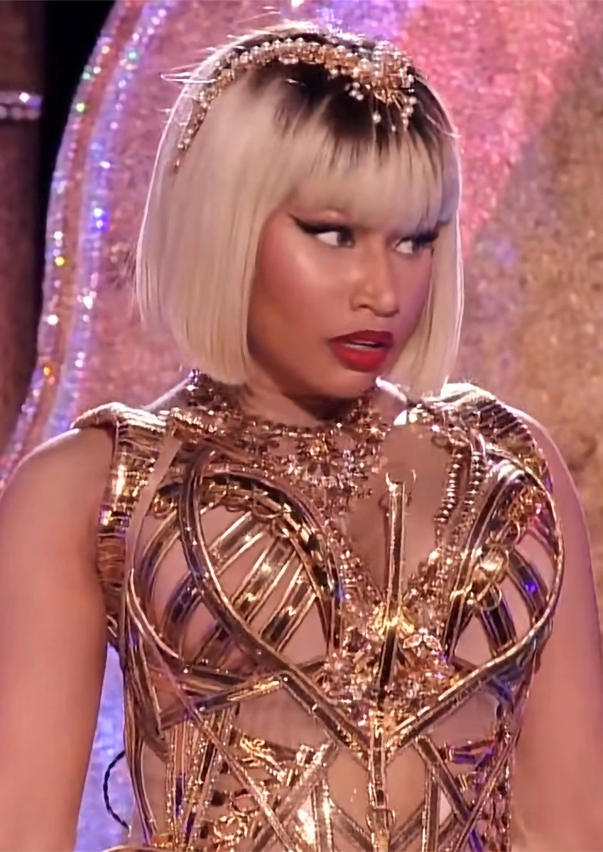 Nicki Minaj performs a medley of "Majesty," "Barbie Dreams," "Ganja Burn," and "FeFe" at the 2018 Video Music Awards in New York City.